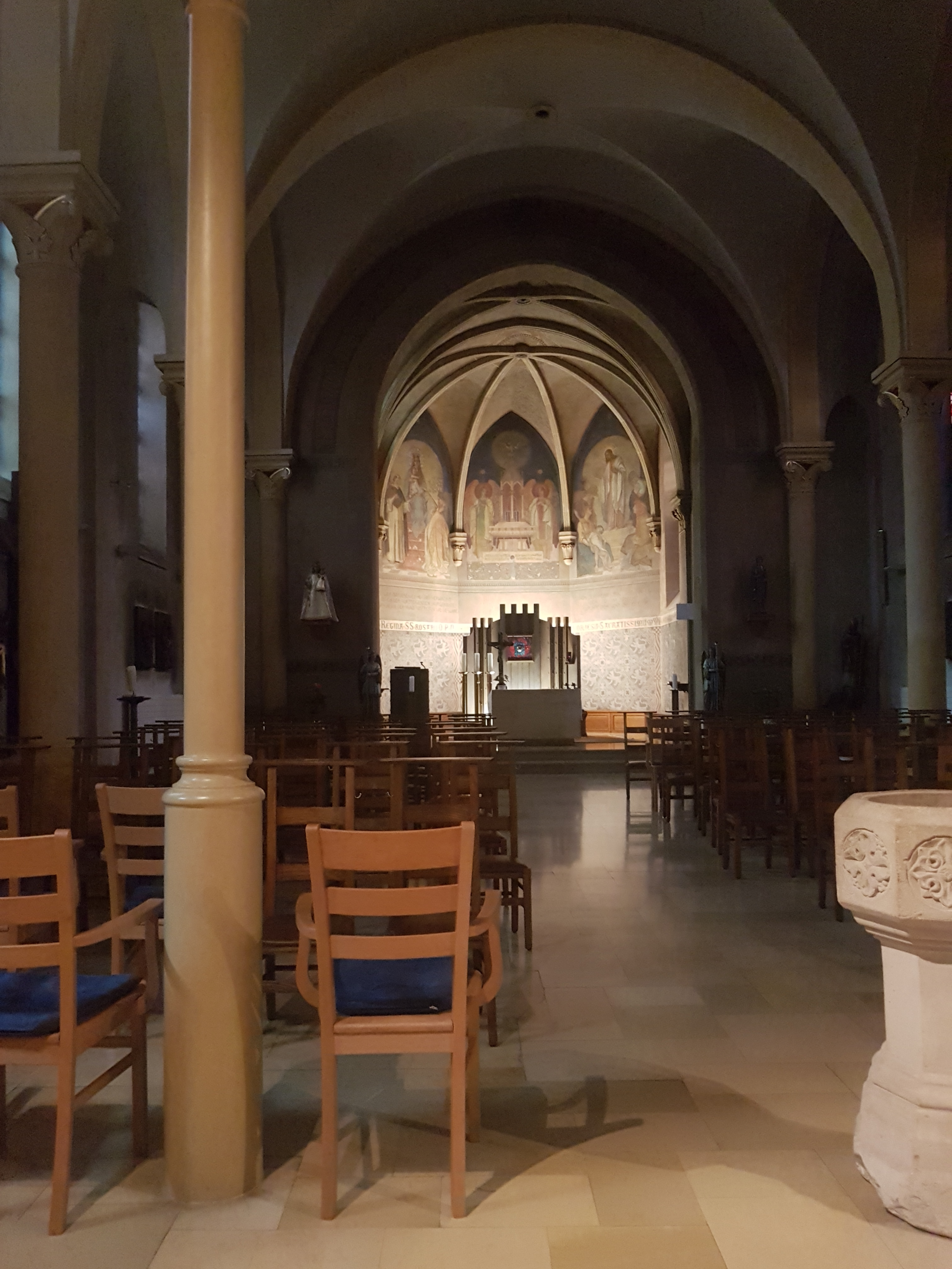 Church of St. Hubert in Luxembourg-Dommeldange in the Rue du Château.